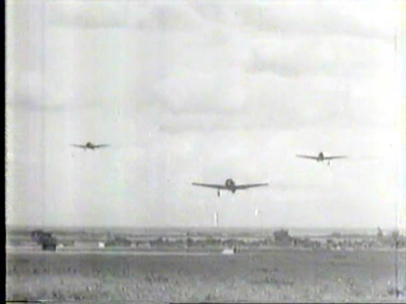 The film of the first kamikaze attack sortie (shooting of October 21, 1944)